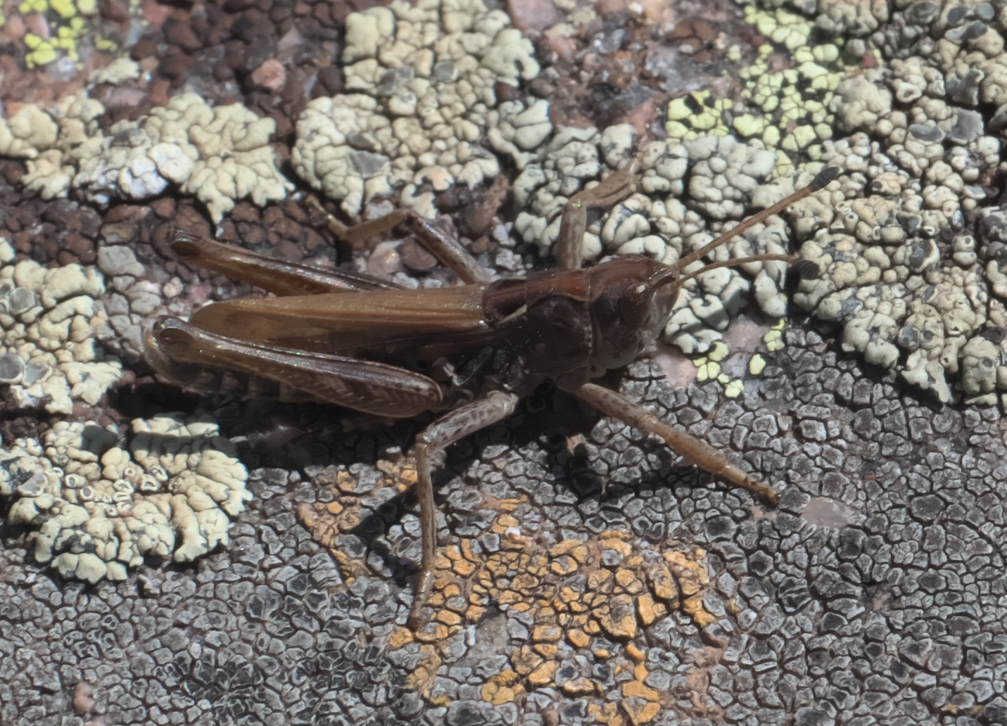 Aeropedellus clavatus, Club-horned Grasshopper, male, ID Confidence: 98